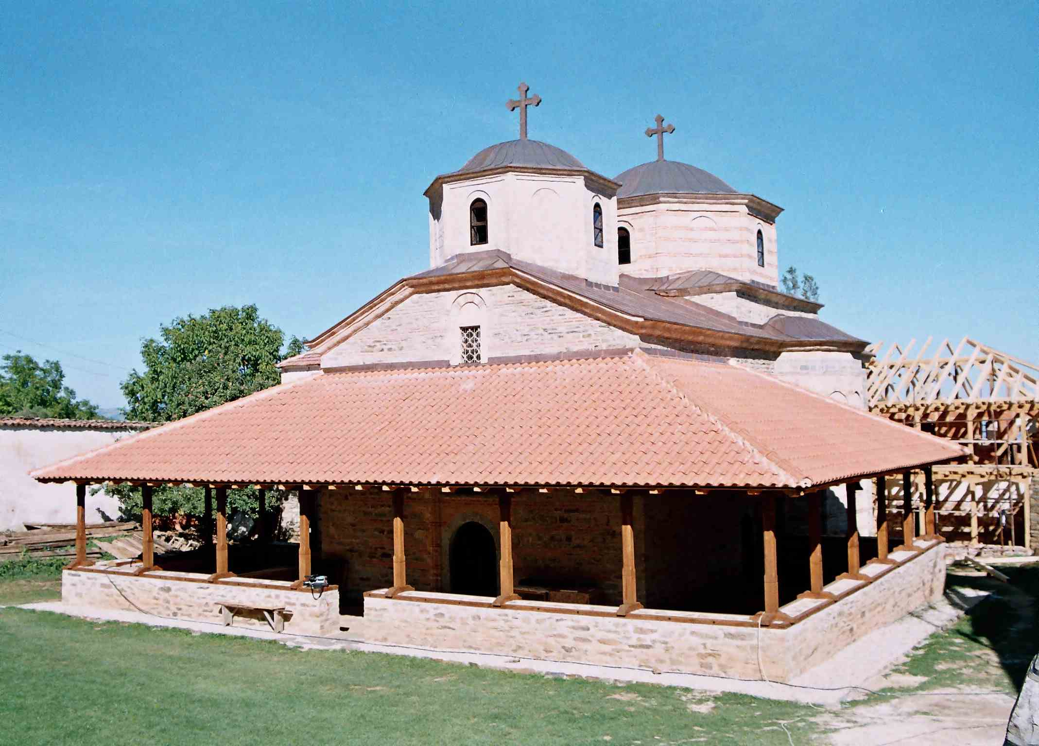 Sv._Jovan_Preteca_s._Slepce